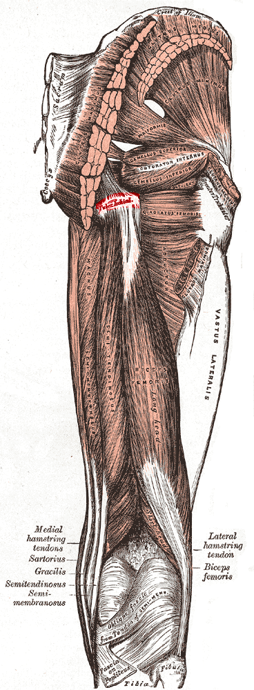 Muscles of the gluteal and posterior femoral regions with current area highlighted